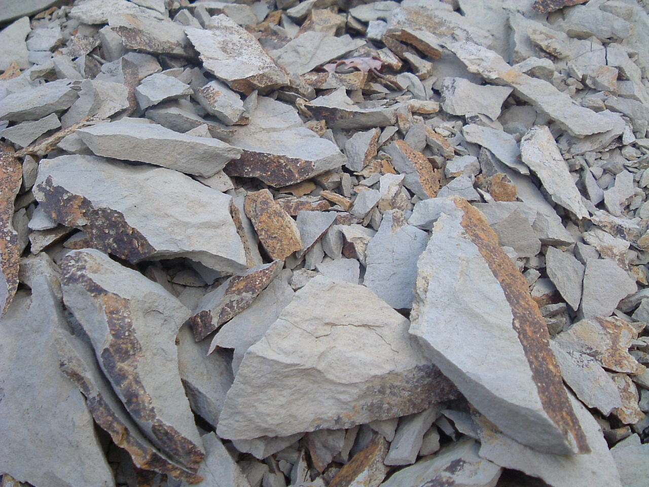 Galestro : schist based soil found in the Tuscany region of Italy.